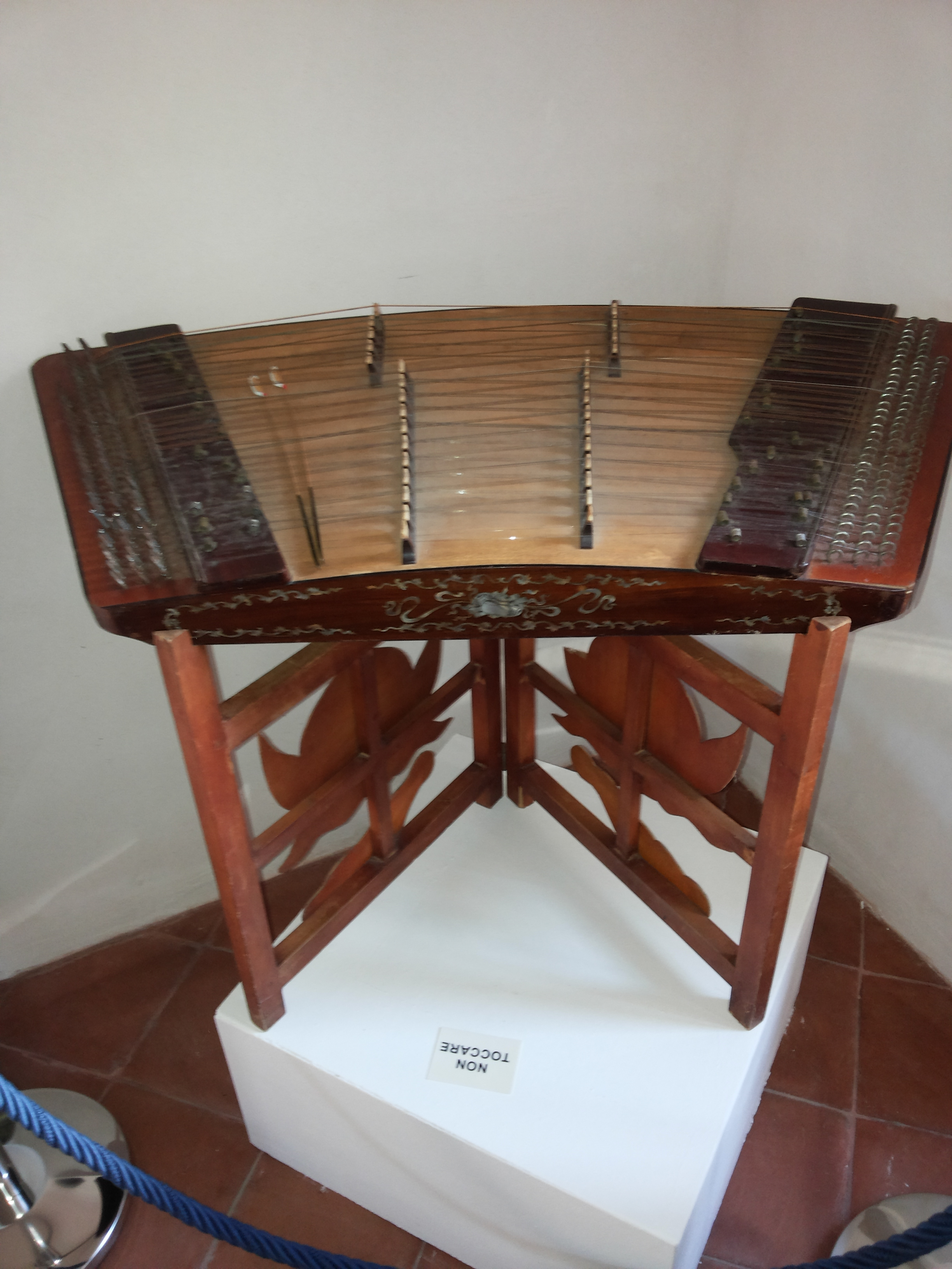 Musical Instruments exhibition at Collegio dei Gesuiti (Alcamo) - Gift by Professor Fausto Cannone